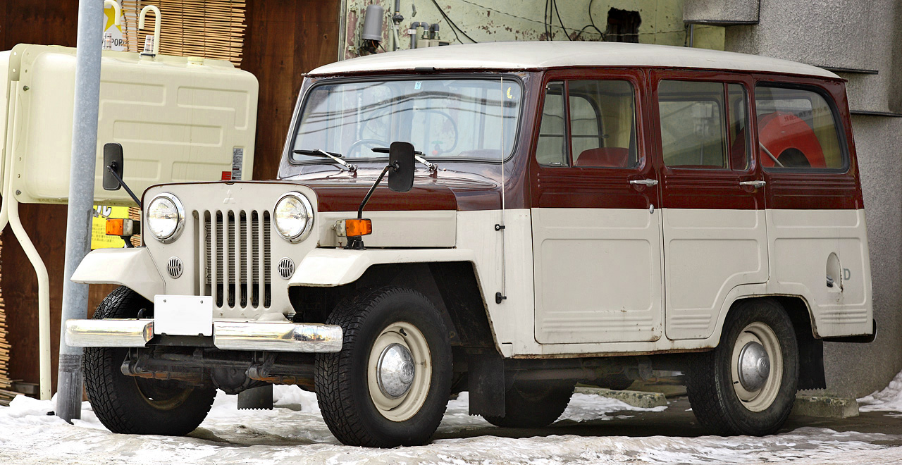 Mitsubishi Jeep Delivery-wagon J-36 ( 2.7L Diesel )